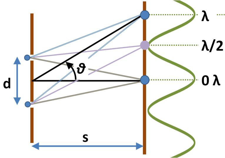 path differences in double-slit interferometer